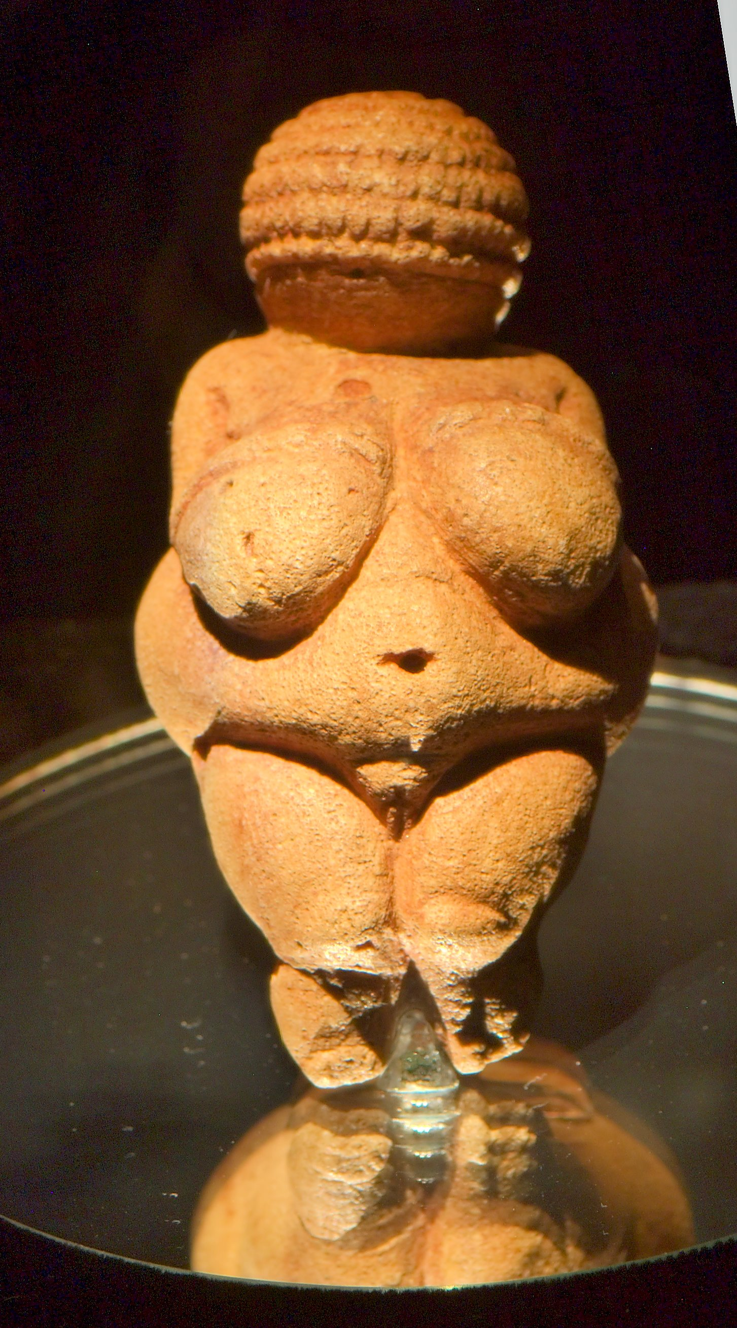 Venus of Willendorf